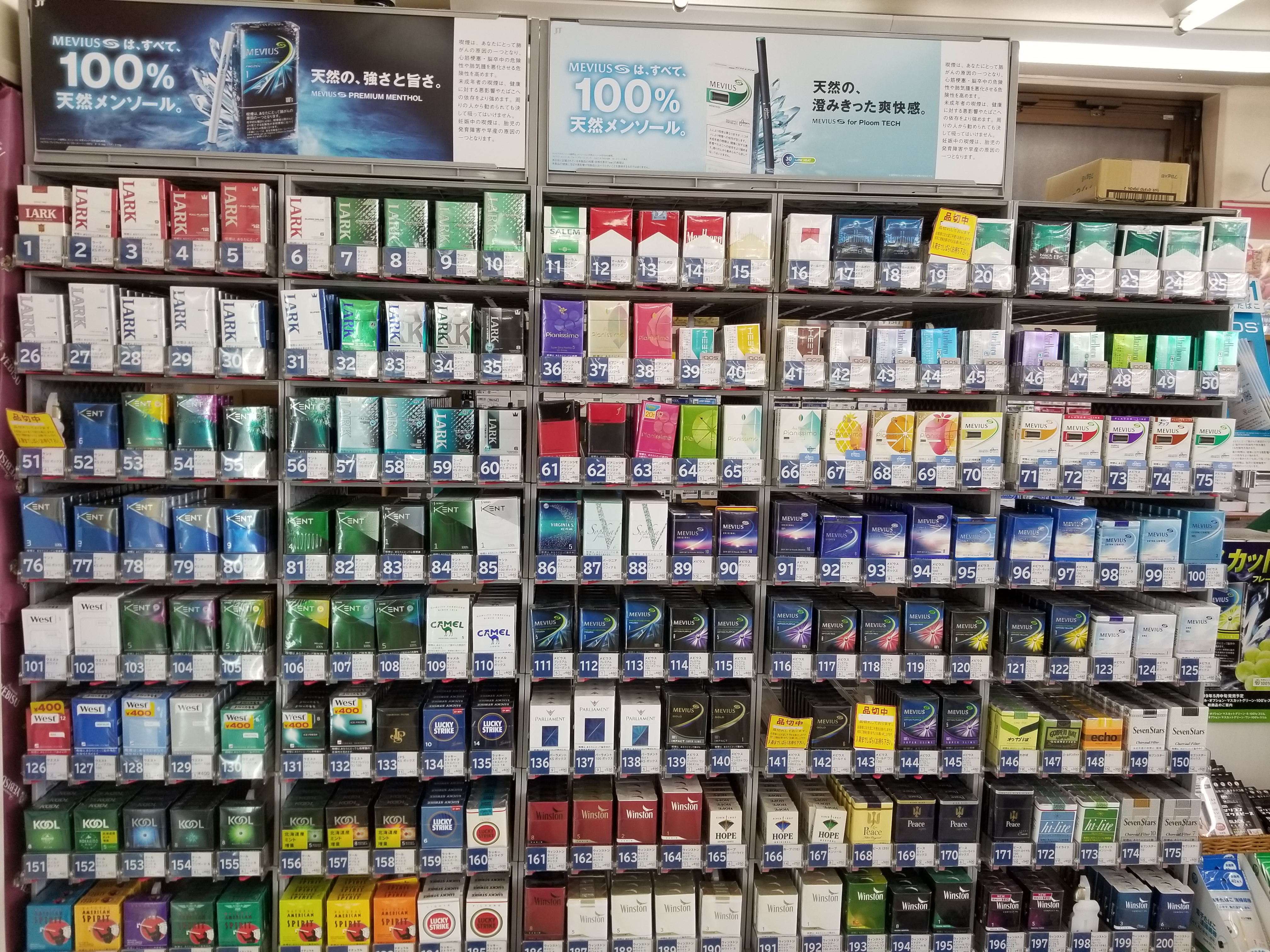 A self-service tobacco stand inside a Japanese convenient store.